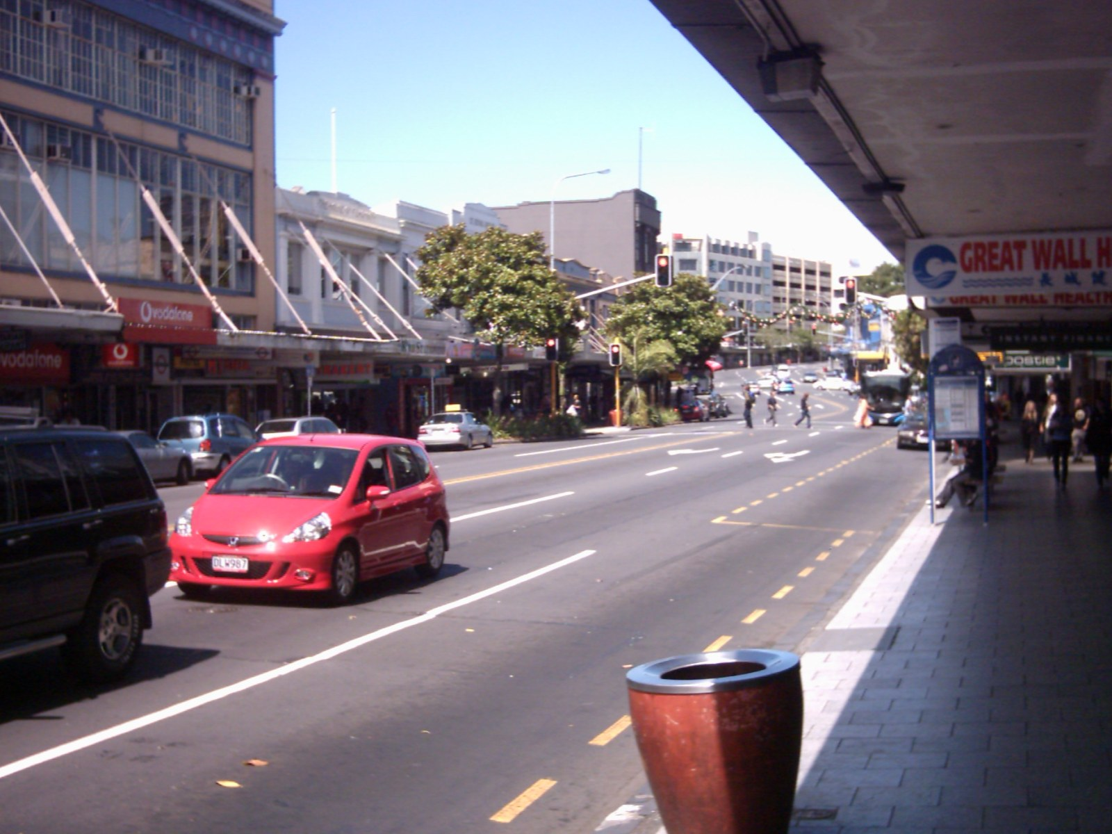 View along upper K' Road (Karangahape Road) in Auckland City, New Zealand looking generally eastward.